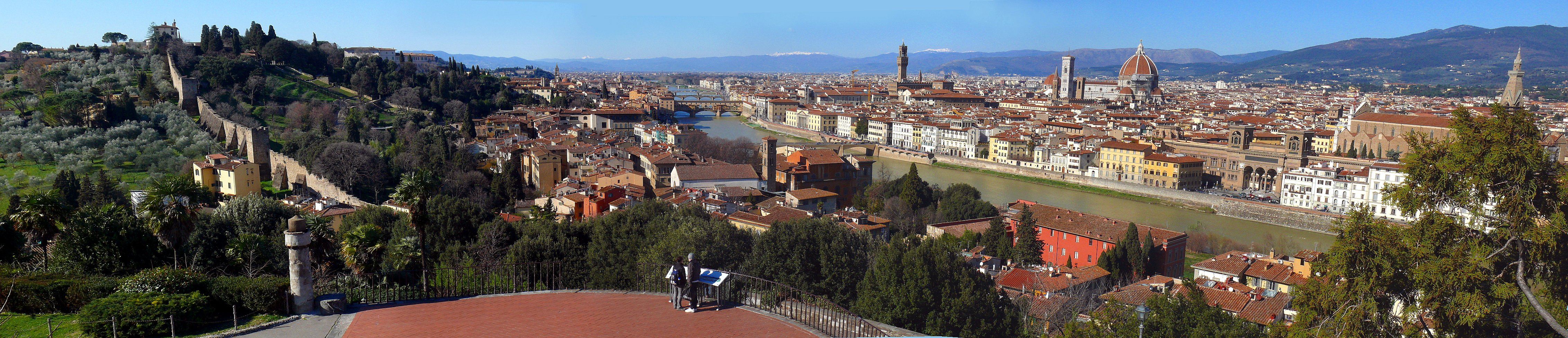 Panoramic of the city of Florence, taken from Piazzale Michelangelo